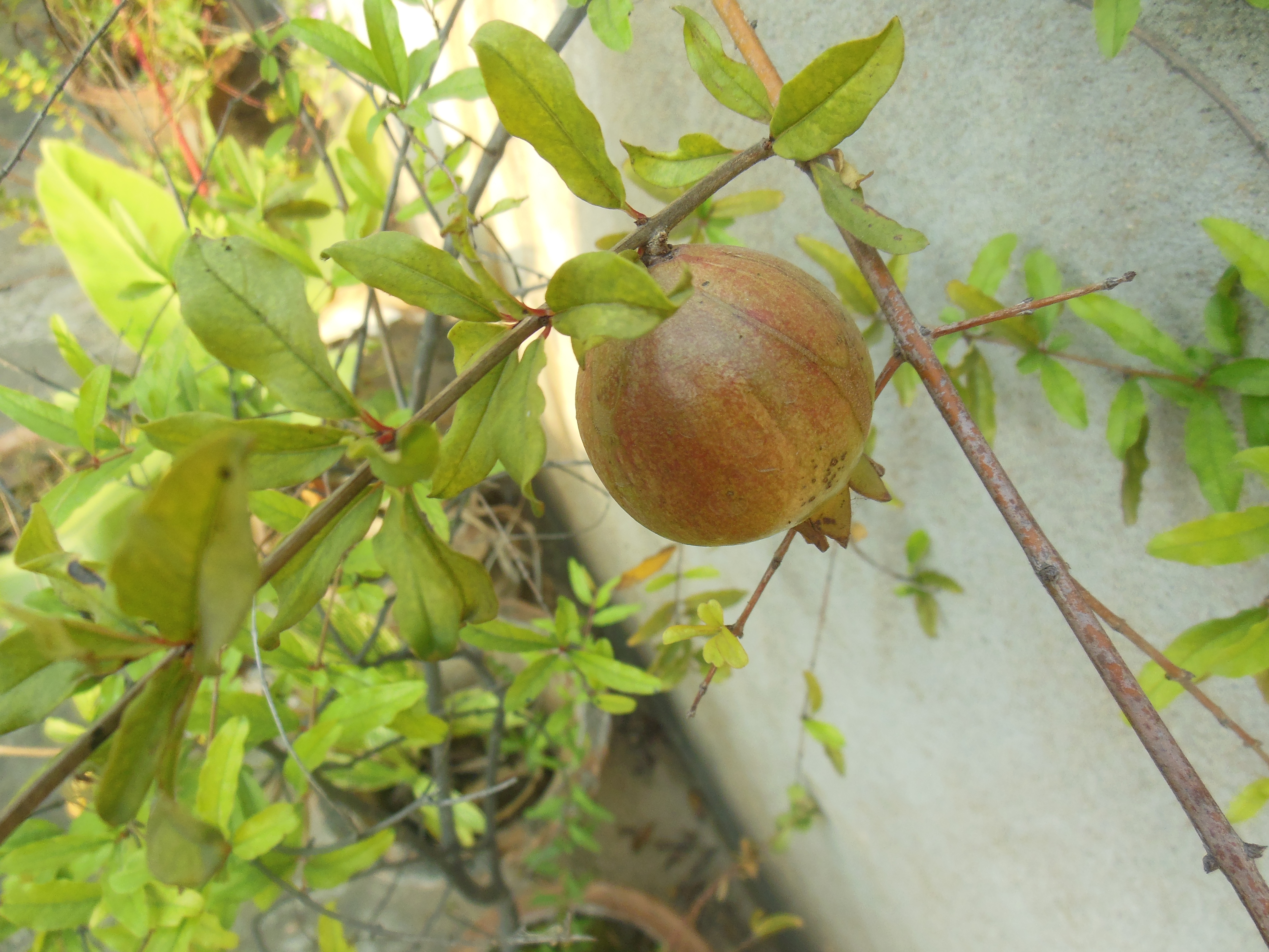 Semi ripe pomegranate fruit on a small tree in India